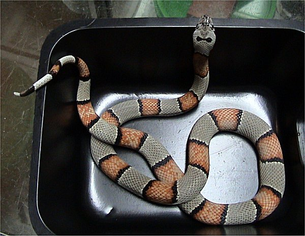 Grey-banded kingsnake. Animal courtesy of Austin Reptile Service.